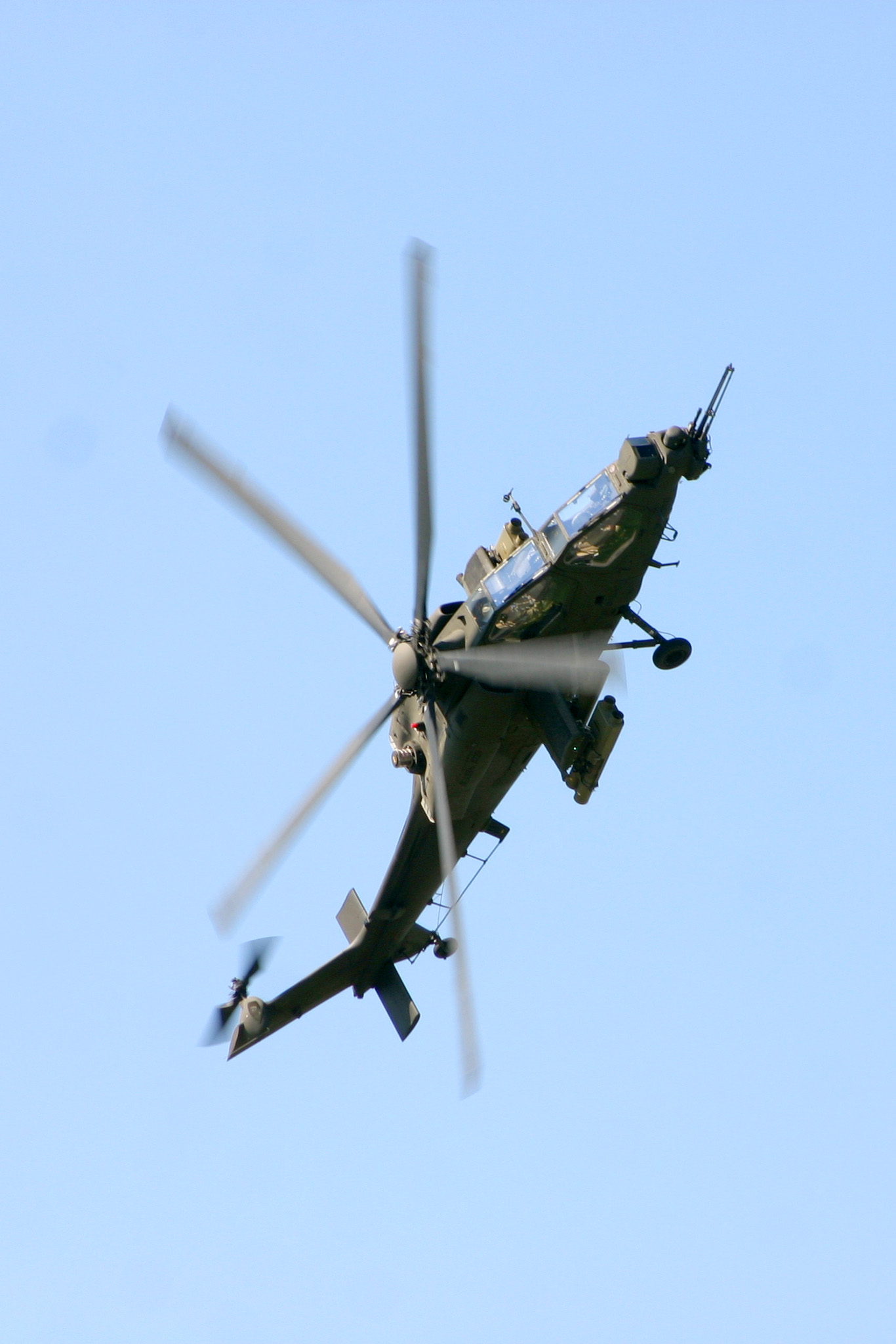 Agusta A129 Mangusta at Air 04, Payerne, Switzerland